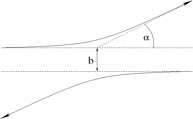 Particle scattering. b - shooting distance. α - scattering angle.